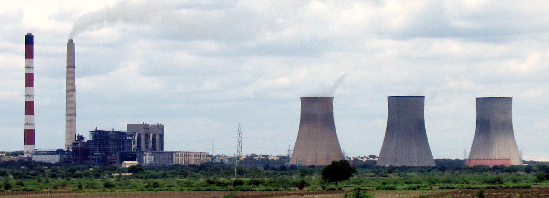 Andhra Pradesh - Landscapes from Andhra Pradesh, views from Indias South Central Railway